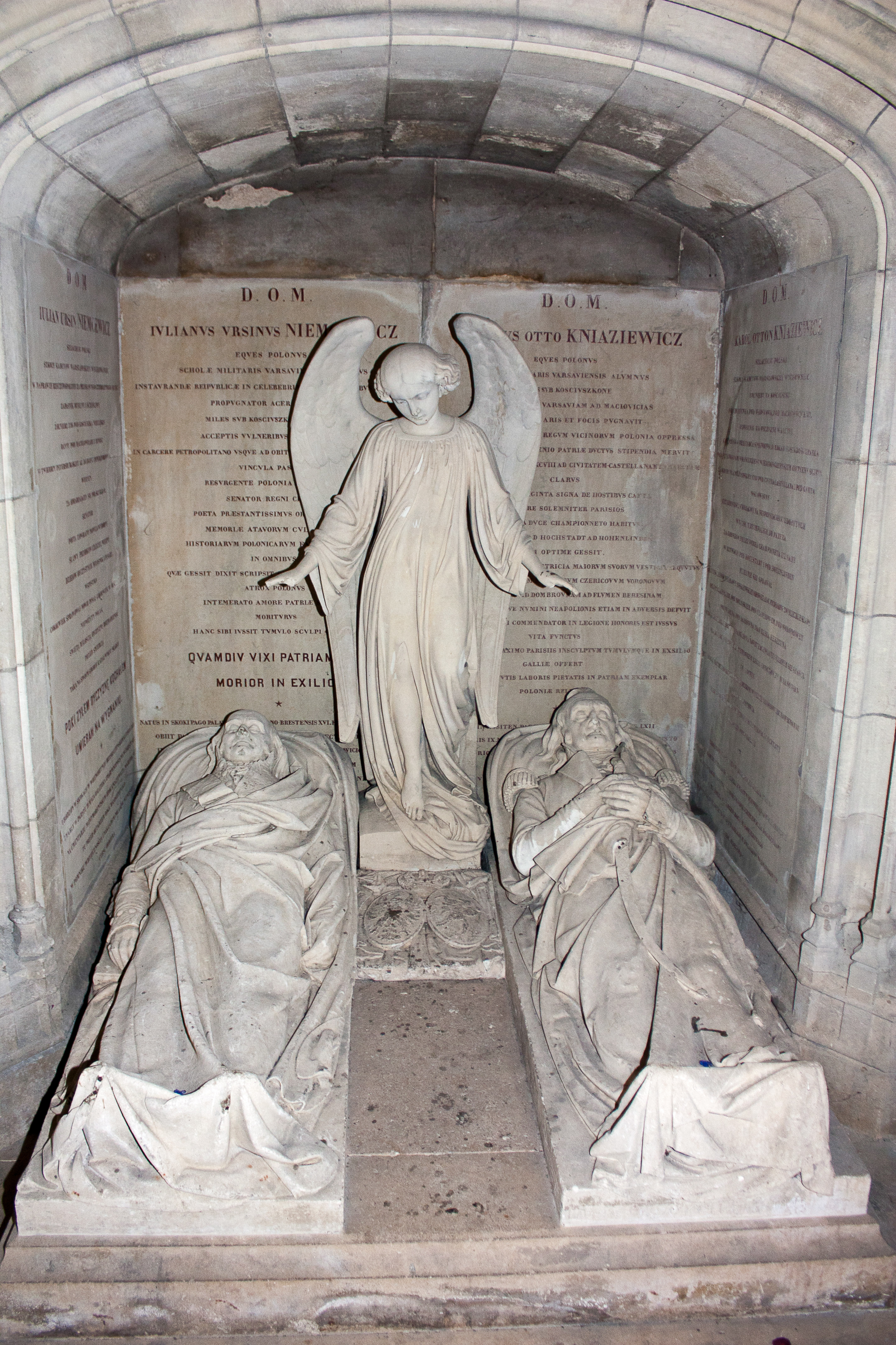 Funerary Monument of General Kniaziewicz and Senator Niemcewicz.